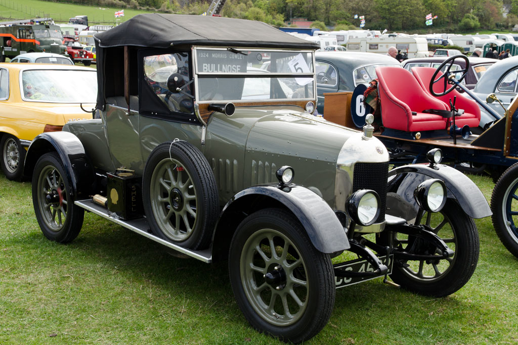 Morris Cowley Bullnose open two-seater 1924(DVLA) first registered 9 April 1924, 1465cc Llandudno Transport Festival 04/05/2013